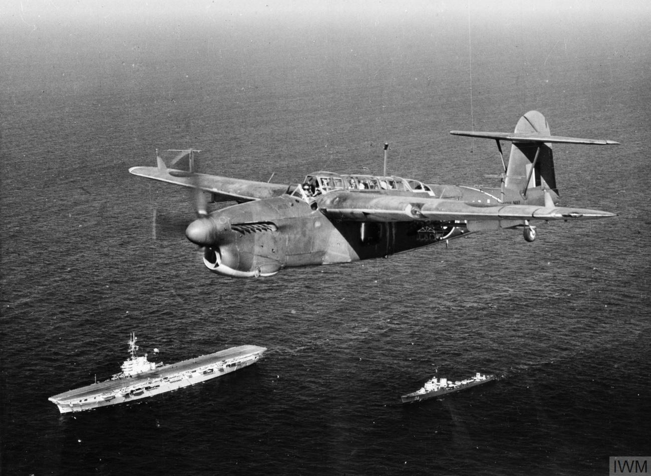 A Fairey Barracuda II of 814 Squadron, Fleet Air Arm flying over HMS Venerable and an attendant destroyer, the Italian ALFREDO ORIANI.